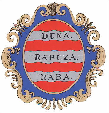 Coat of arms of county of Kingdom of Hungary